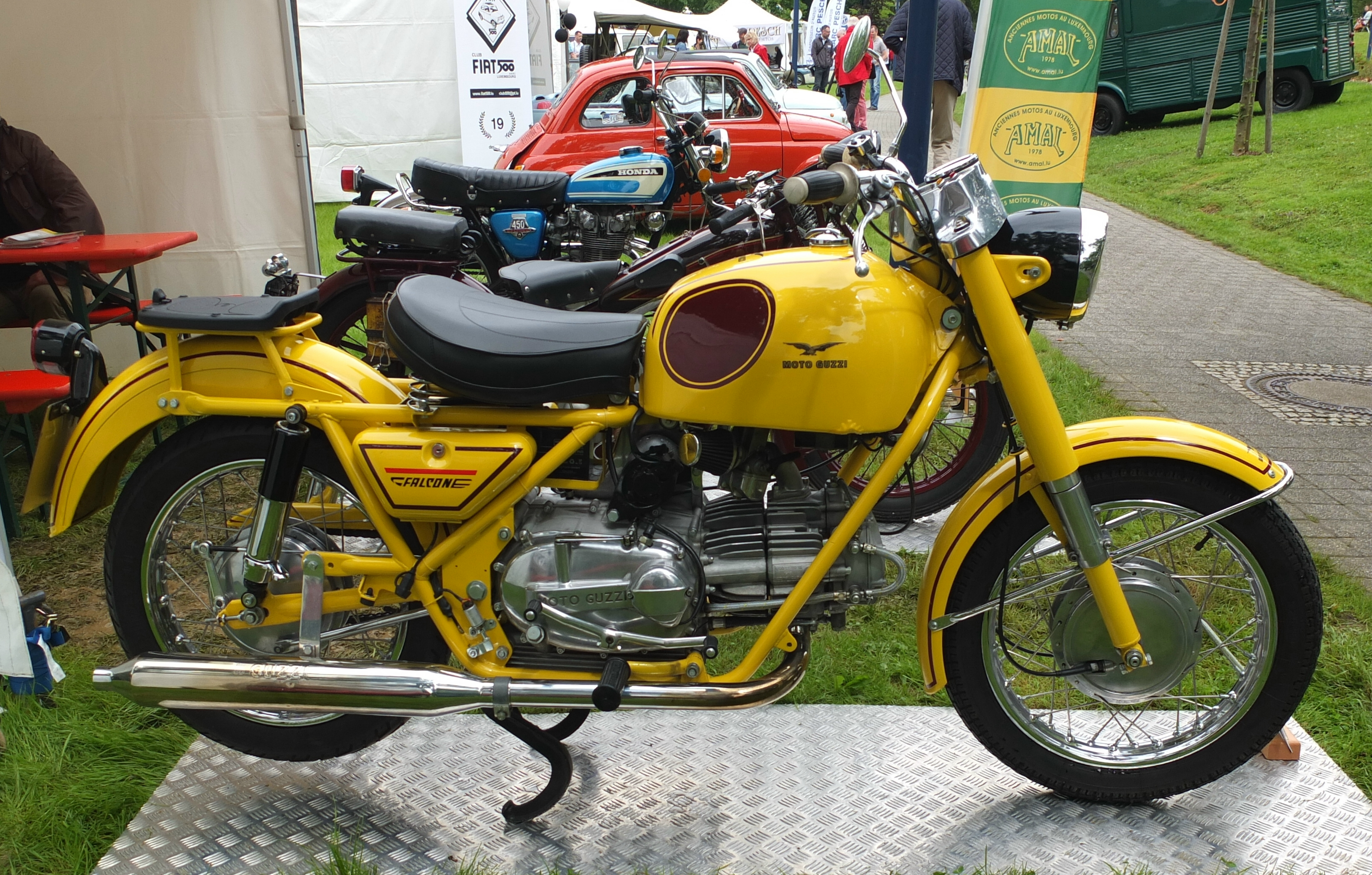 Moto Guzzi Falcone, 500 ccm, built 1970 (seen at: Concours d'Élégance in Mondorf-les-Bains, Luxembourg).